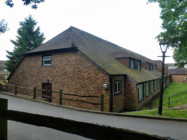 Part of Copthorne Hotel, Gatwick